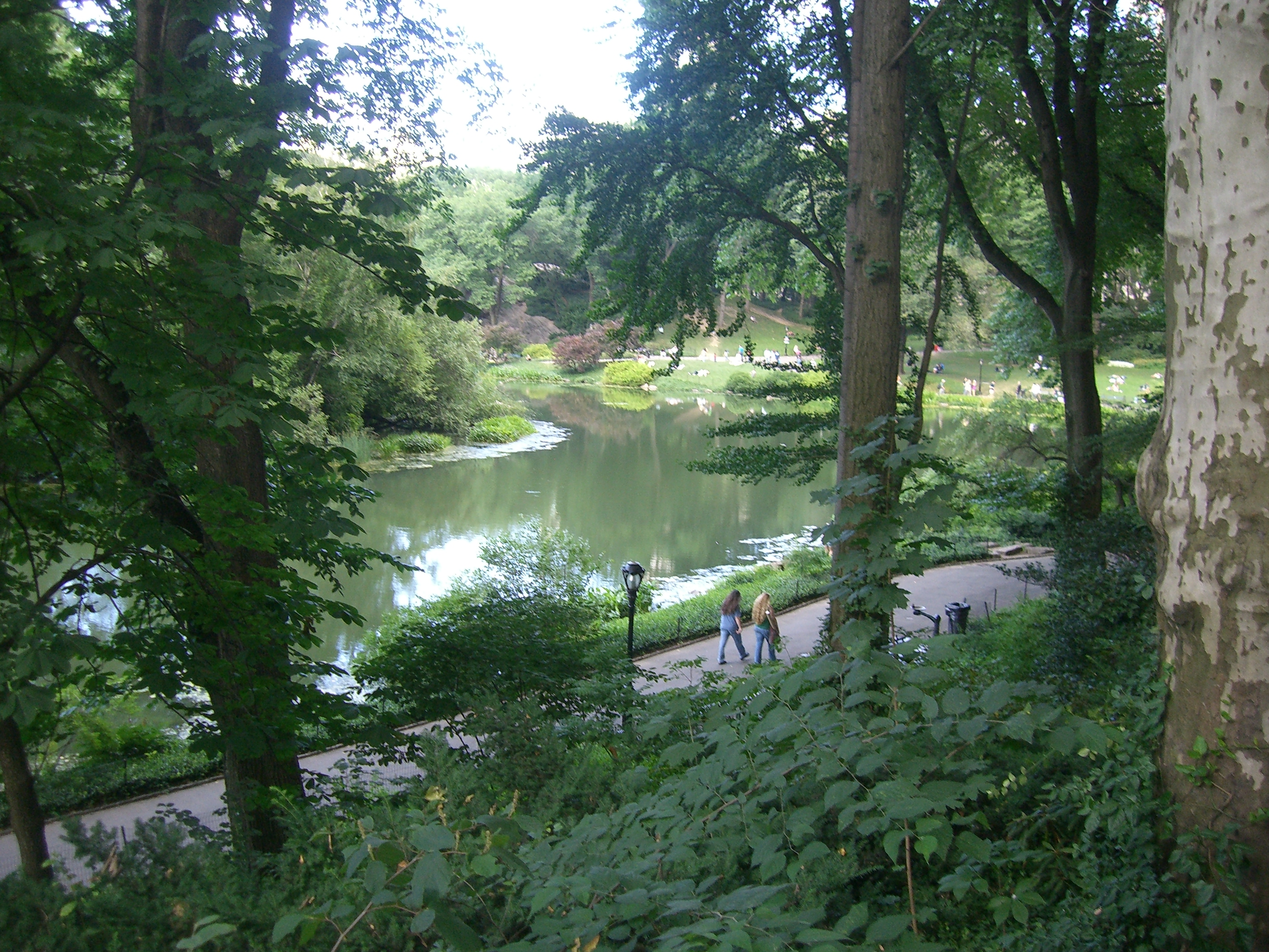 Central Park, New York City